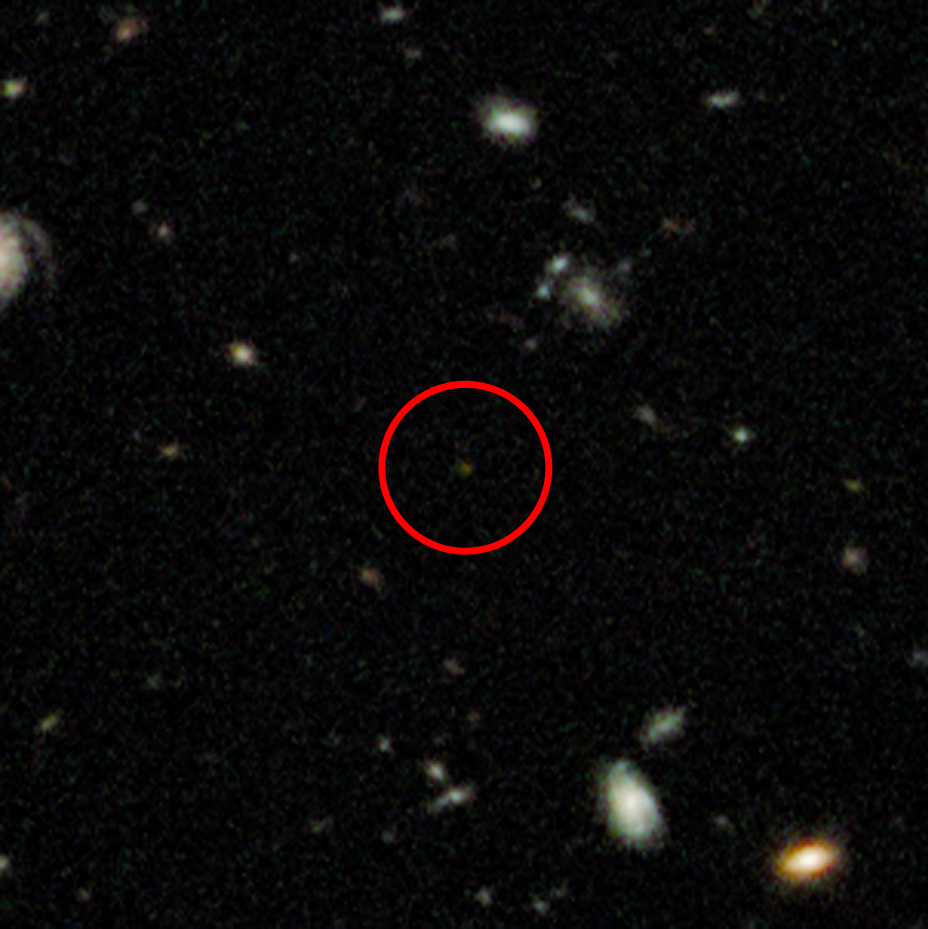 Hubble Space Telescope image of galaxy UDFy-38135539. It is located in the constellation Fornax at coordinates 03 32 38.13 -27 45 53.9